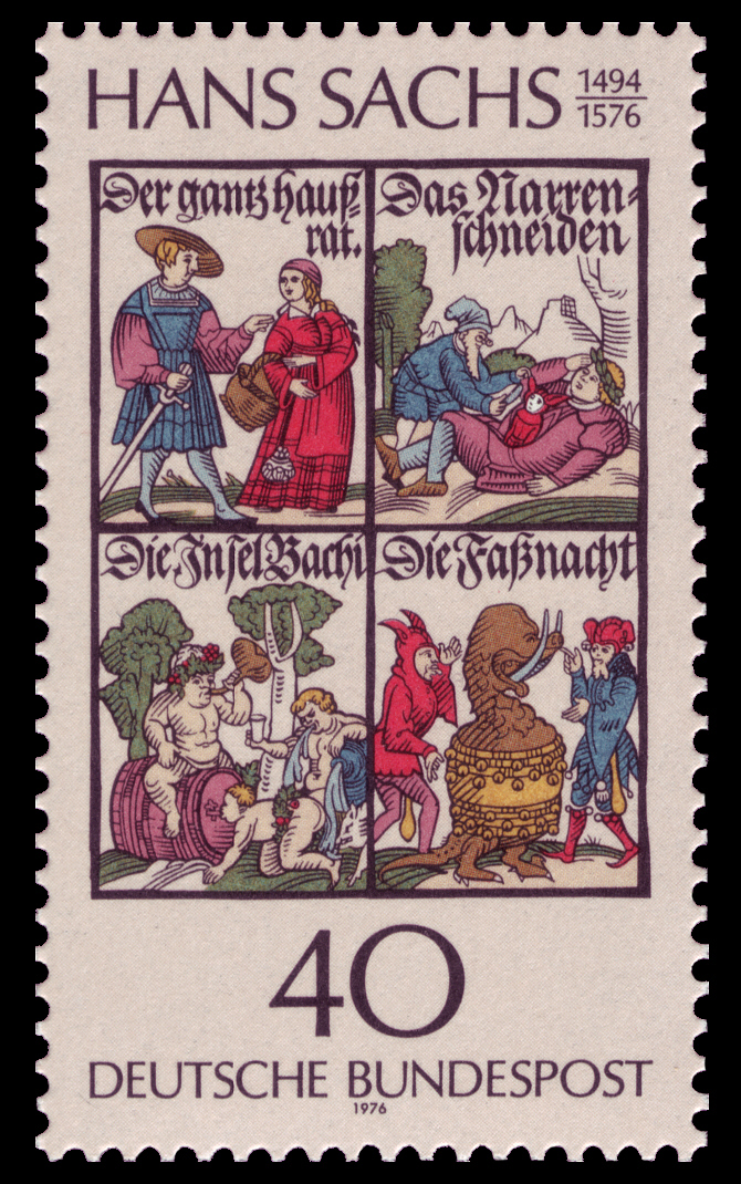 400th day of death of Hans Sachs (1494–1576) Ausgabepreis: 40 Pfennig First Day of Issue / Erstausgabetag: 5. Januar 1976 Michel-Katalog-Nr: 877 Graphic-Designer: Heinz Schillinger